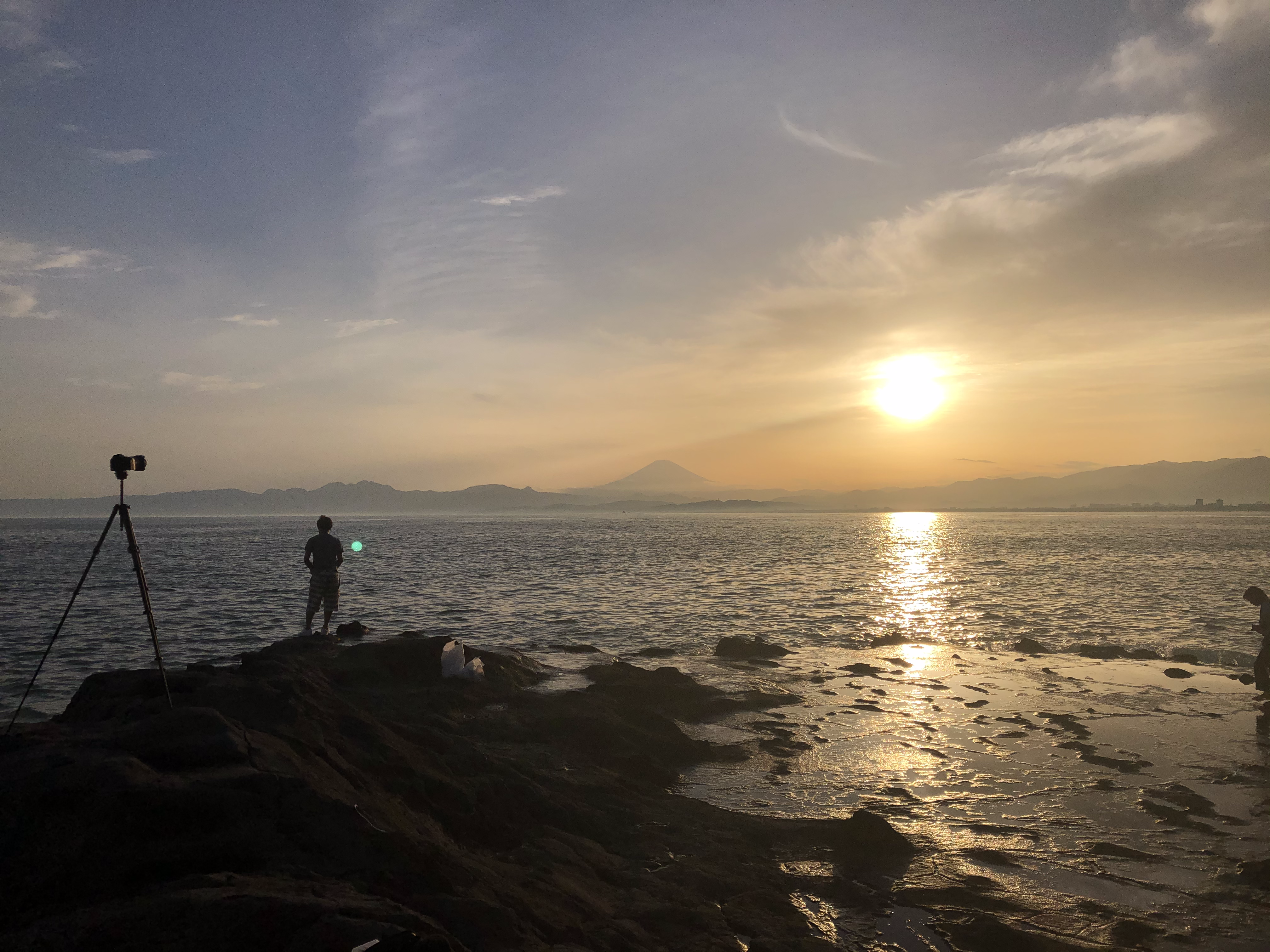 This is the sunset from Chigogafuchi in Enoshima island, Japan.